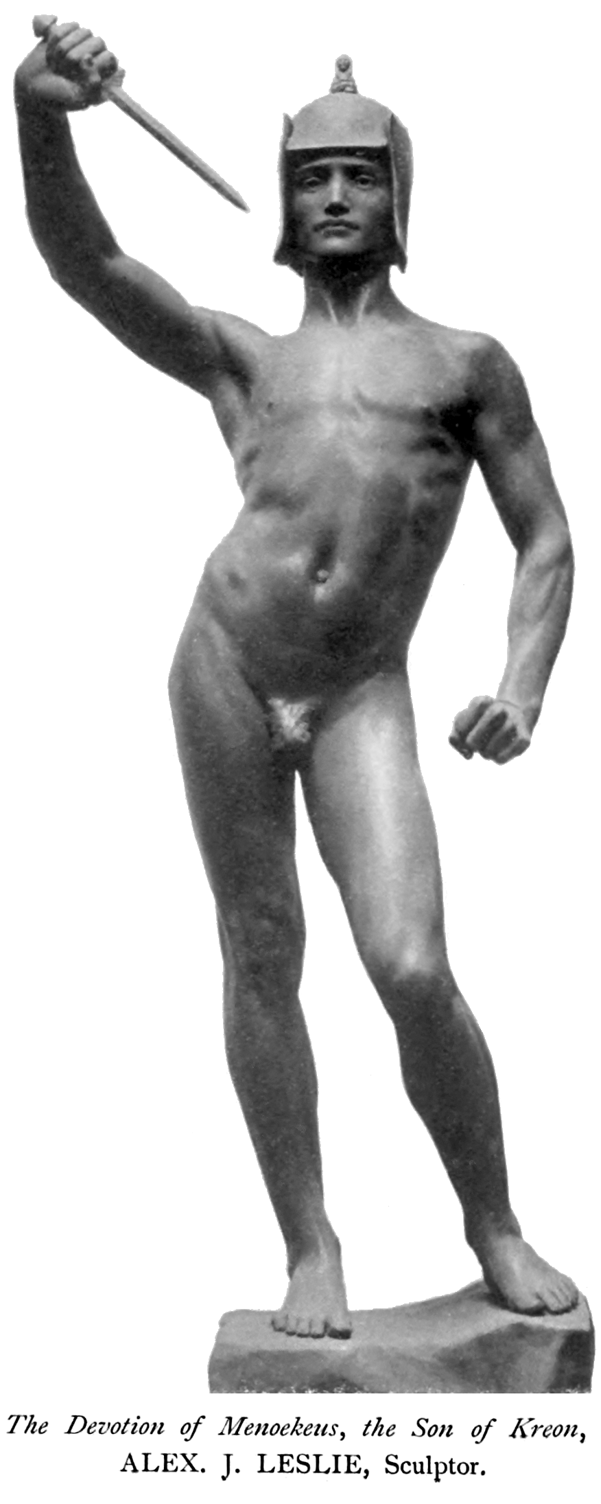 Also spelled Monoeceus. According to Wikipedia , "... Menoeceus was the son of Creon, named after his grandfather. According to Hyginus and Statius, during the reign of Oedipus when the Seven Against Thebes laid siege to the city, Creon's son committed suicide by throwing himself from the walls after Tiresias foretold that if anyone of the Sparti should perish, Thebes would be freed from disaster. The Thebans were ultimately victorious. The battle is memorialized in Seven Against Thebes, the play by Aeschylus. Some records say that that Menoeceus was the grandfather of Creon and Jocasta and his son (Creon and Jocasta's father) was named Oscalus."